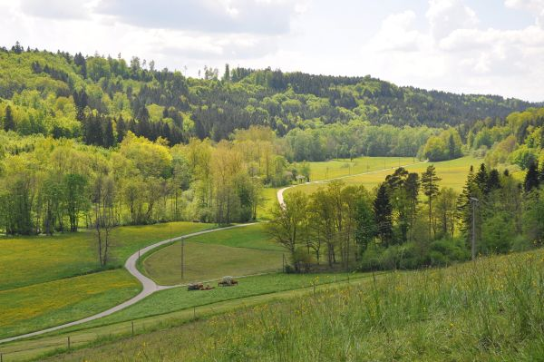 View upstream into the Rot river valley upside from Schwäbisch Hall-Wielandsweiler, taken from the L 1050 on its ascending section between Wielandsweiler and Mainhardt-Hütten. The camera position is somewhat below the Buchhof, the camera is oriented to the WSW.